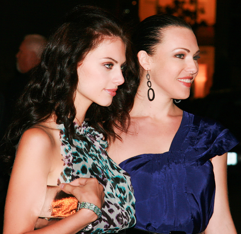 Julia Voth and Erin Cummings at the 2009 Toronto International Film Festival.